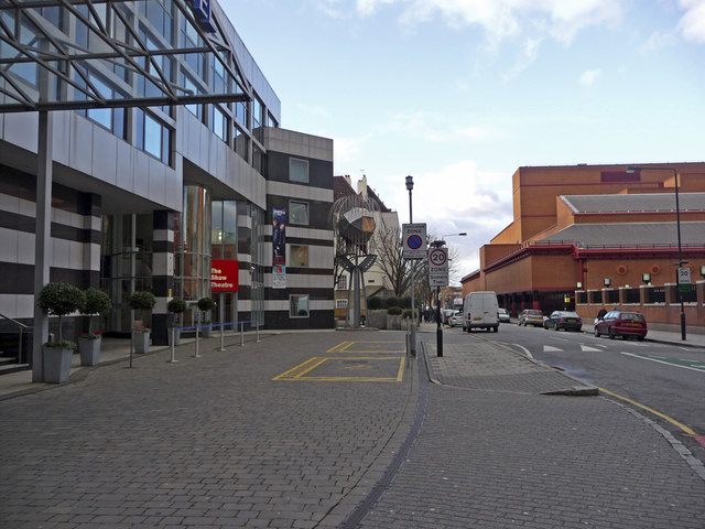 Ossulston Street, London WC1 Looking down Ossulston Street from the Novotel. The Shaw Theatre can be seen on the left and the British Library is on the right.